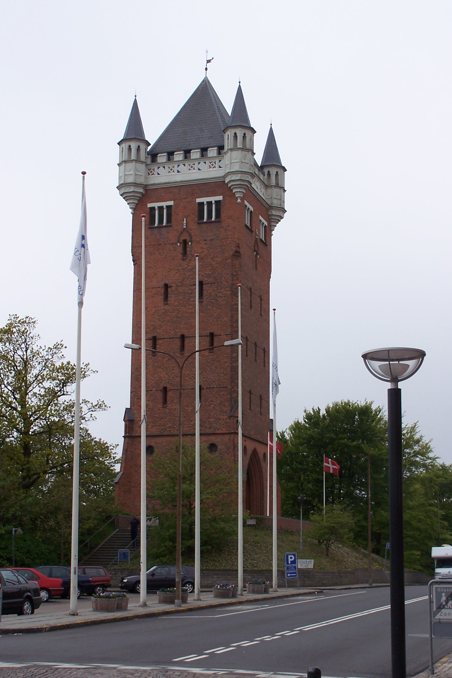 Esbjerg, Watertower. Photo by Cnyborg, May 2005.